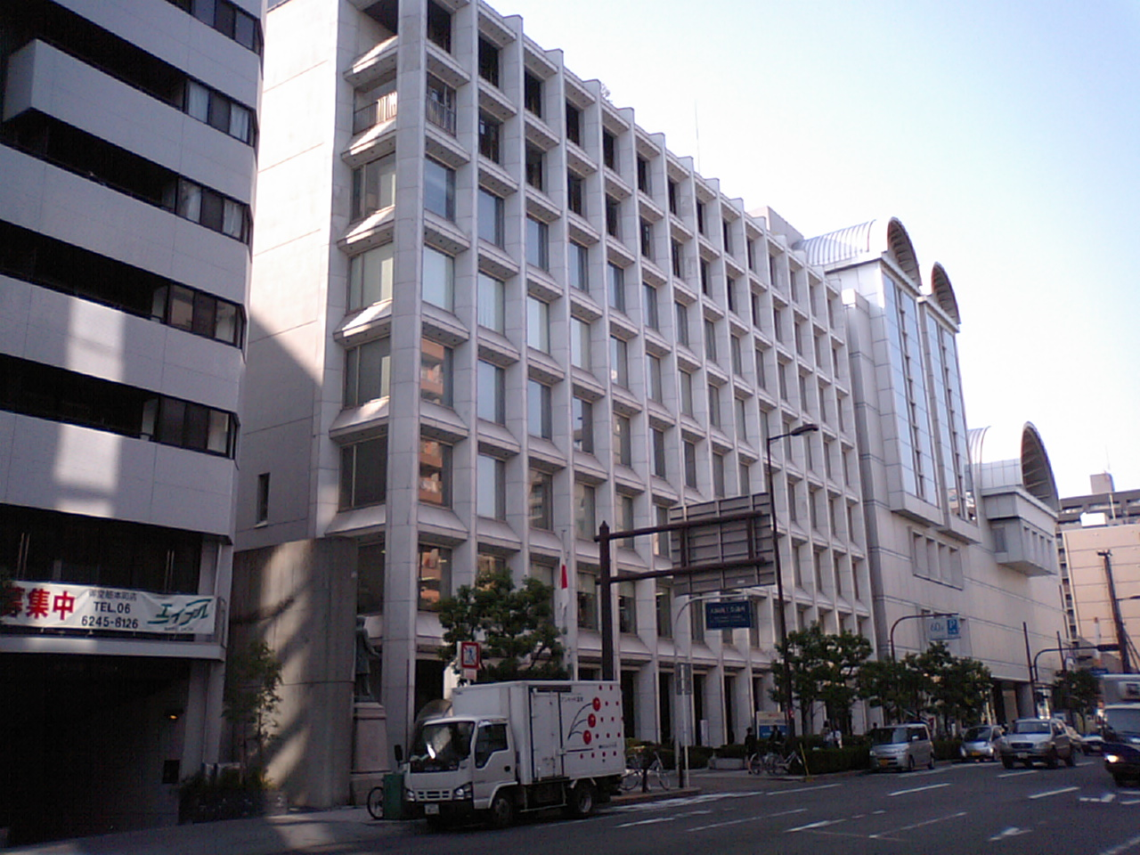 Building of Osaka Chamber of Commerce and Industry. 大阪商工会議所ビル。